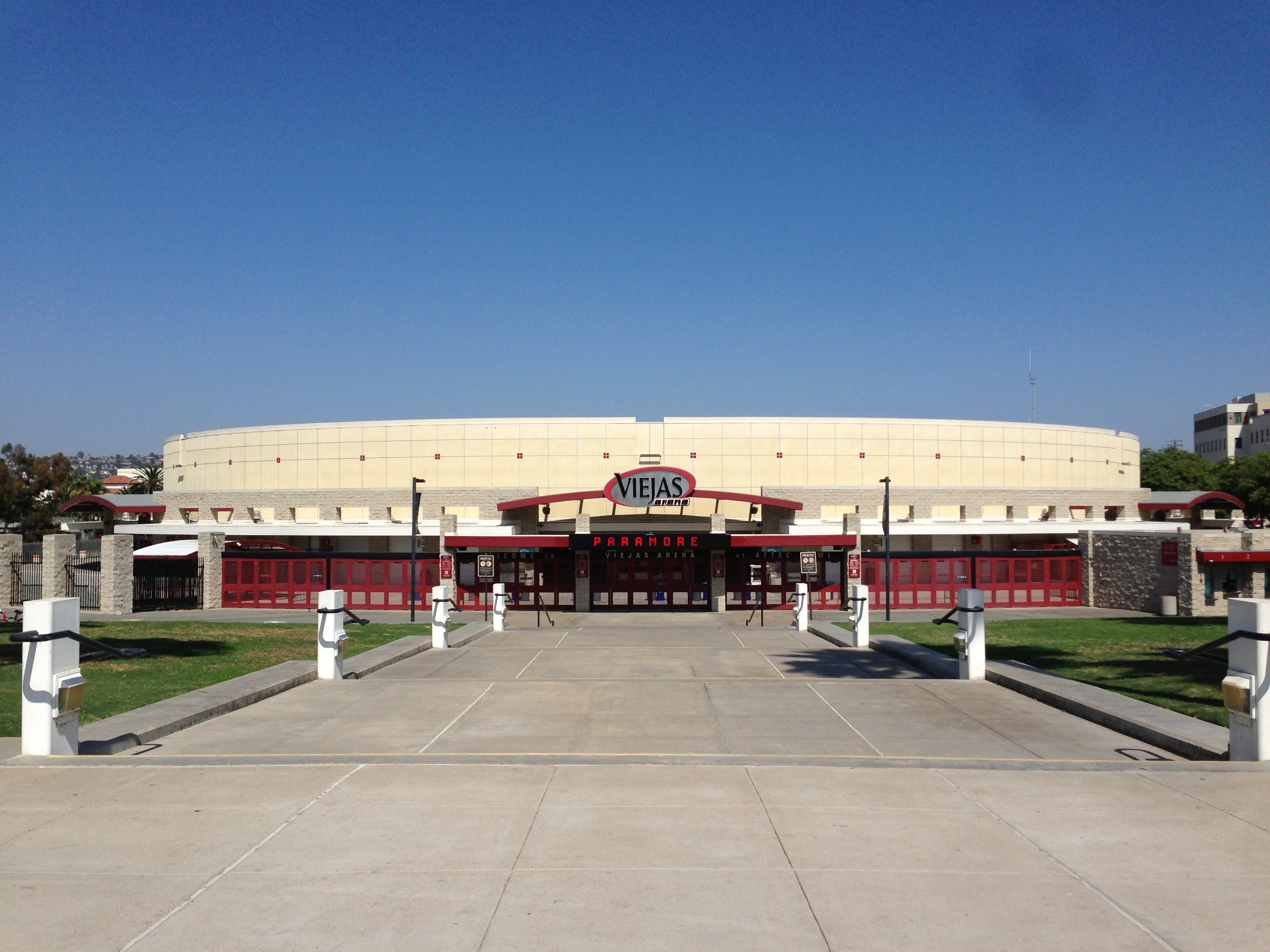 Viejas Arena for basketball and other events at San Diego State University